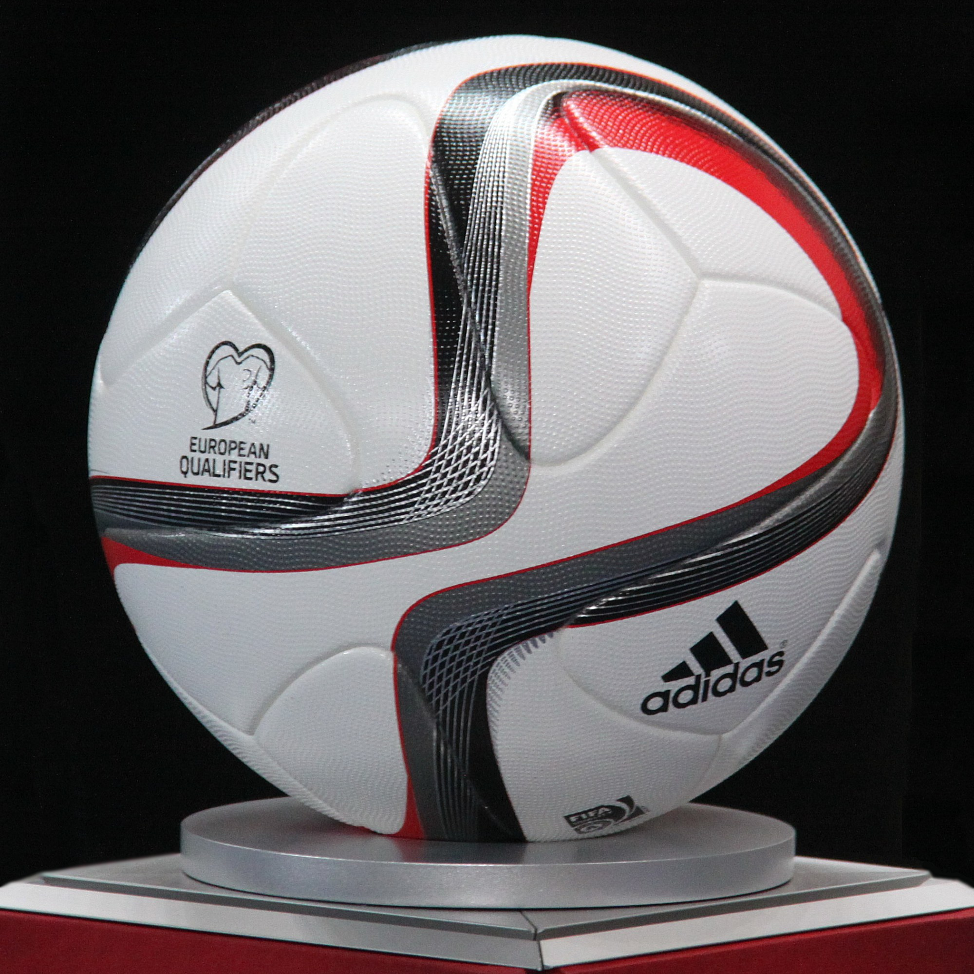 UEFA Euro 2016 qualifying, Group G – Austria national football team (red shirts) vs. Moldova national football team (blue shirts) on 2015-09-05 in Ernst-Happel-Stadion, Vienna: The photo shows the official ball of the EURO 2016